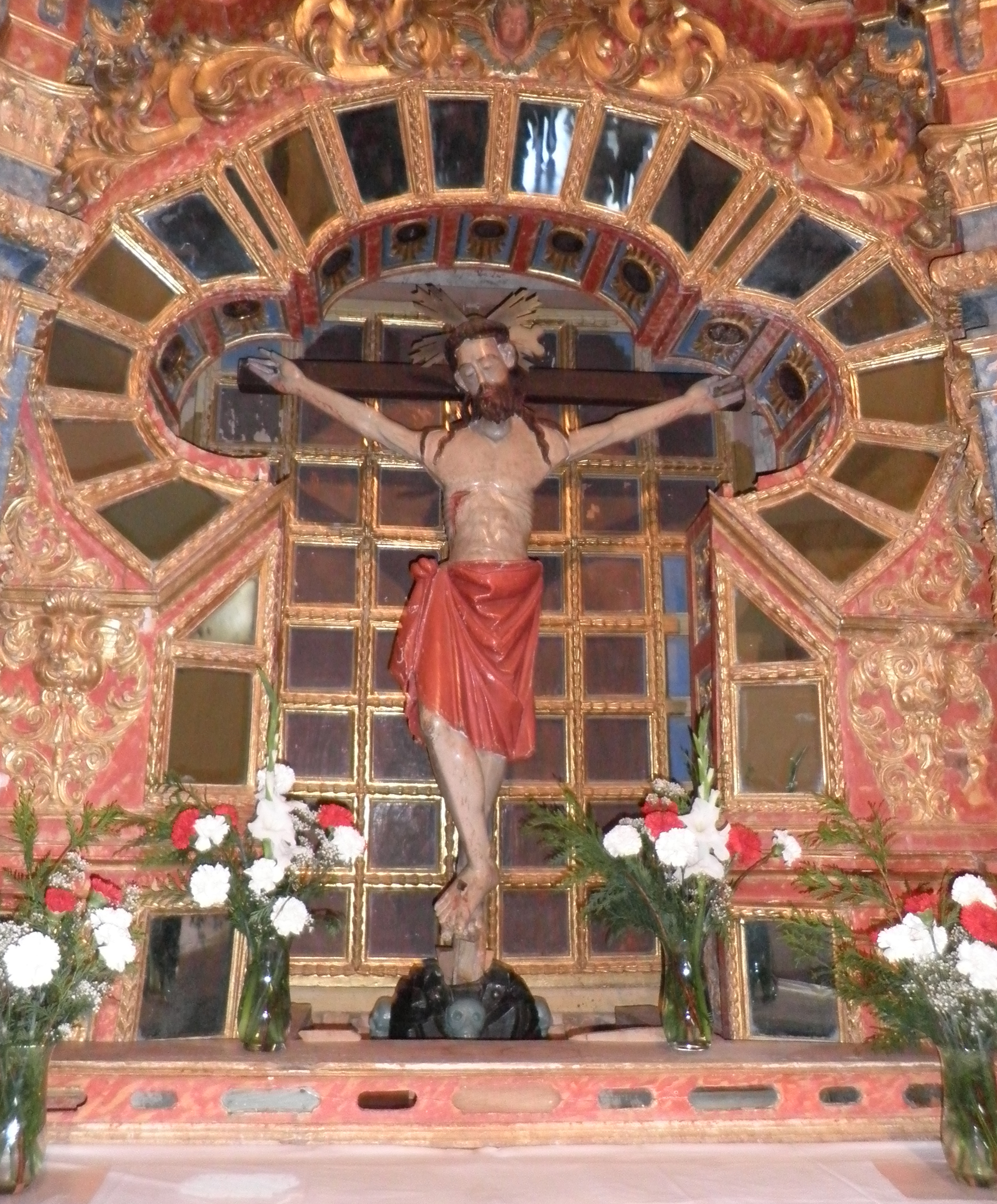 Romanesque sculture of crucified Christ in San Miguel de Párraces chapel in Villoslada, Santa María la Real de Nieva, Segovia Province, Spain.